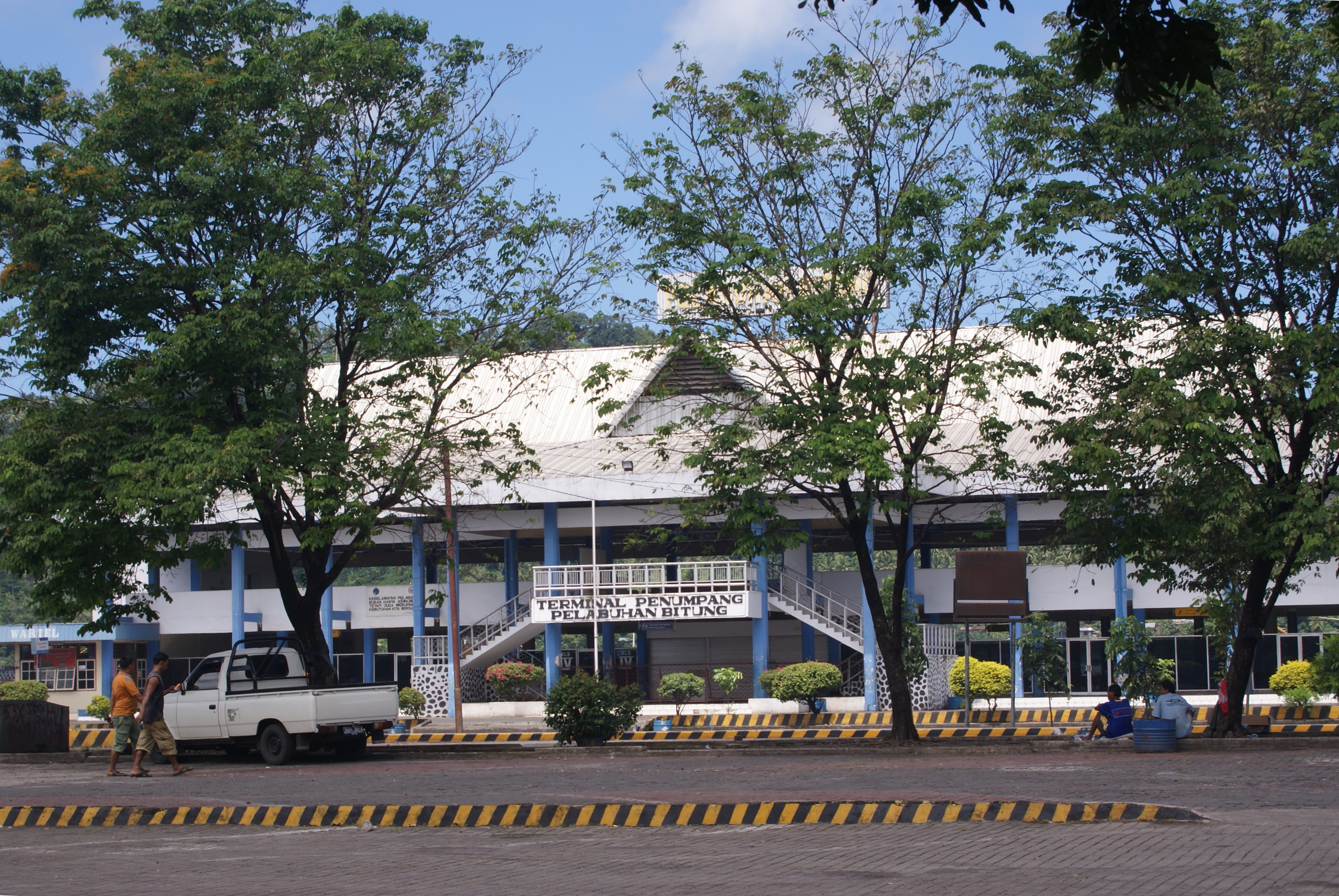 Pasenger terminal Port of Bitung